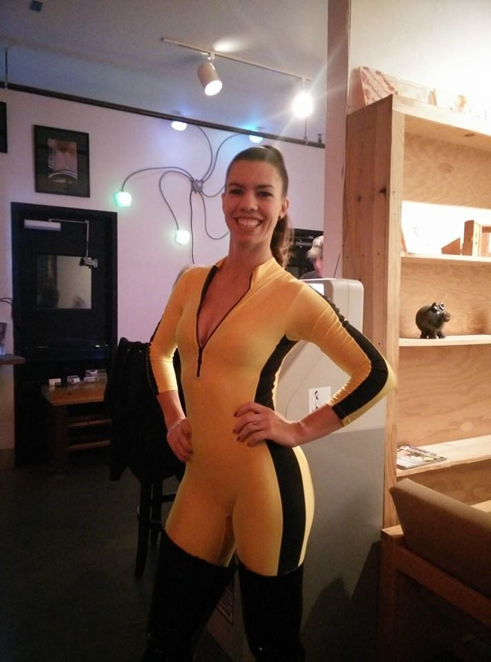 A dancer of the Red Light Variety Show immediately before her performance at the Visual Arts Collective in Garden City, Idaho on Halloween 2014.